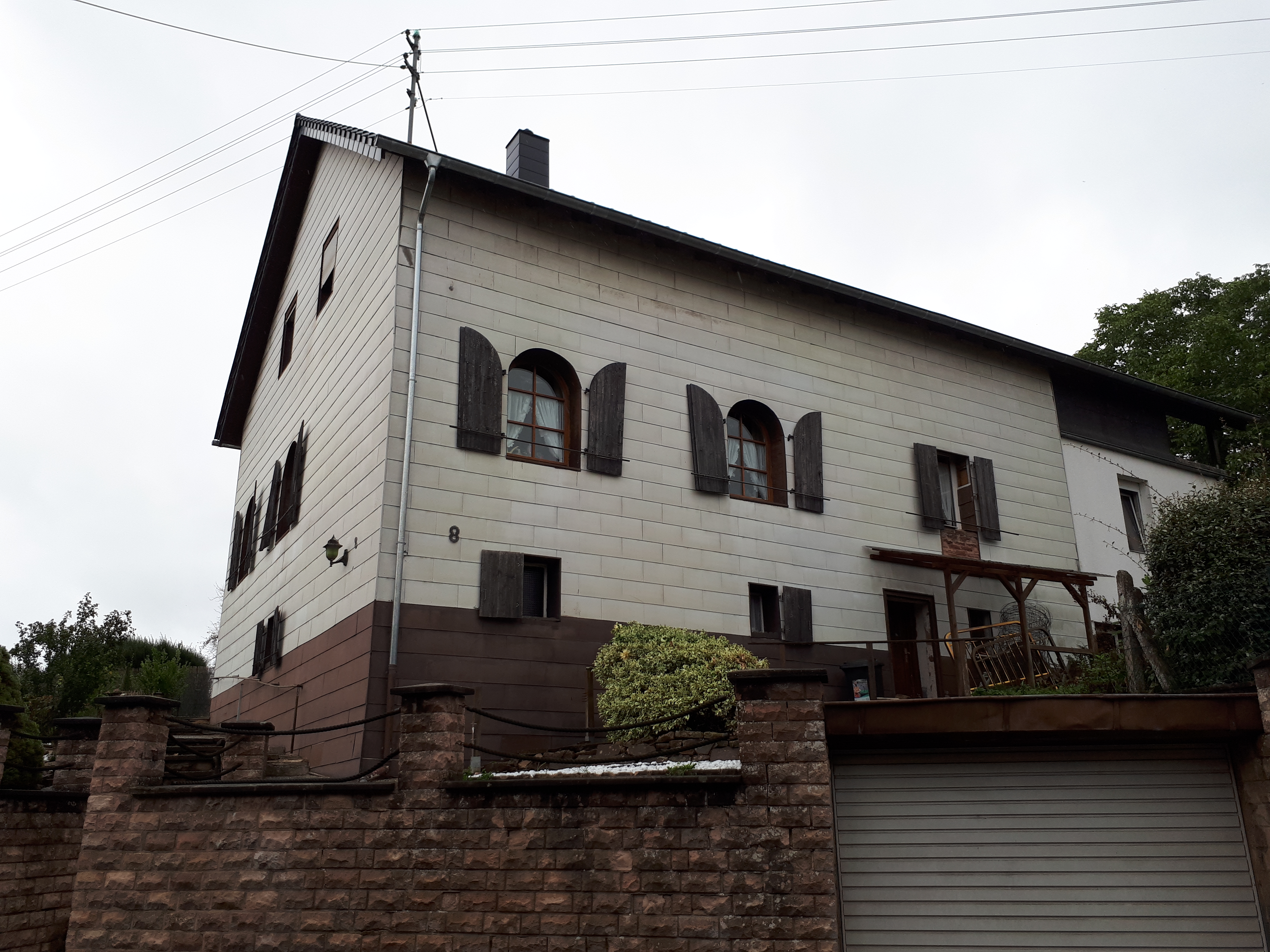 Former synagogue in Gersheim